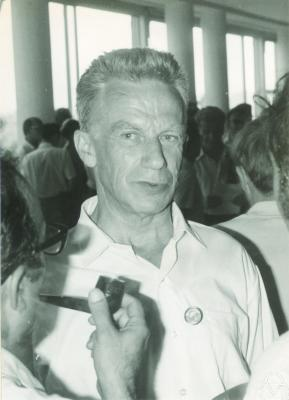 Photo of prominent Russian mathematician S.L.Sobolev taken in Nizza in 1970 by Konrad Jacobs.